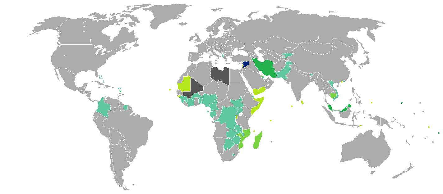 Visa requirements for Syrian citizens Syria Visa free access Visa on arrival eVisa Visa available both on arrival or online Visa required